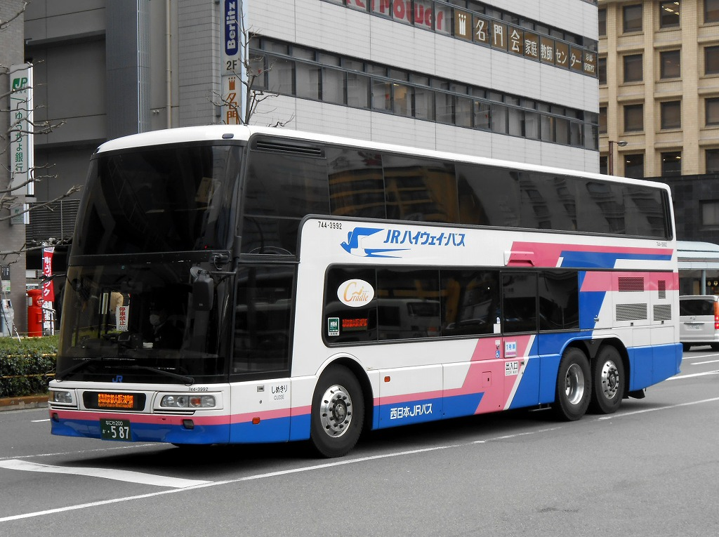 Nishinihon JR bus Mitsubishi Fuso Aero King (MU612TX)highwaybus "Tokaido hirutokkyu"(Osaka,Kyoto-Tokyo)